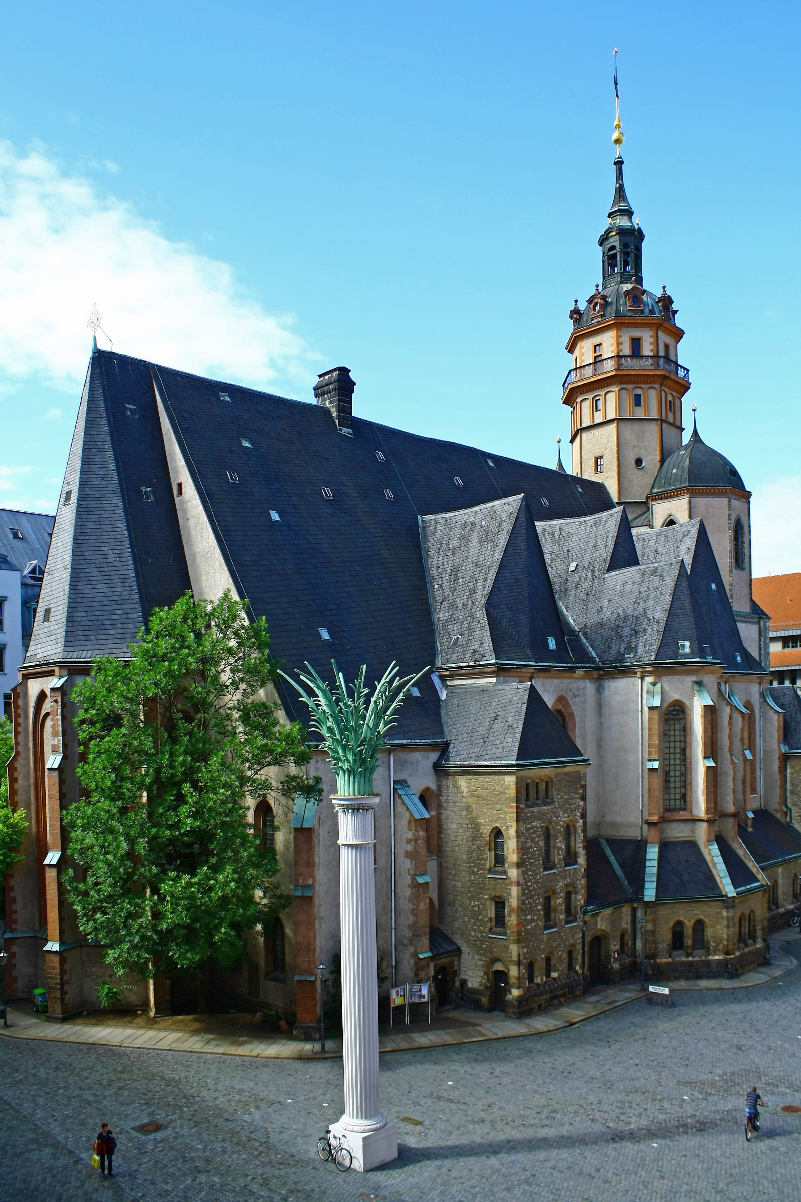 The Nikolaichurch at Leipzig. Well known for the monday demonstrations in 1989 and the revolution in the gdr